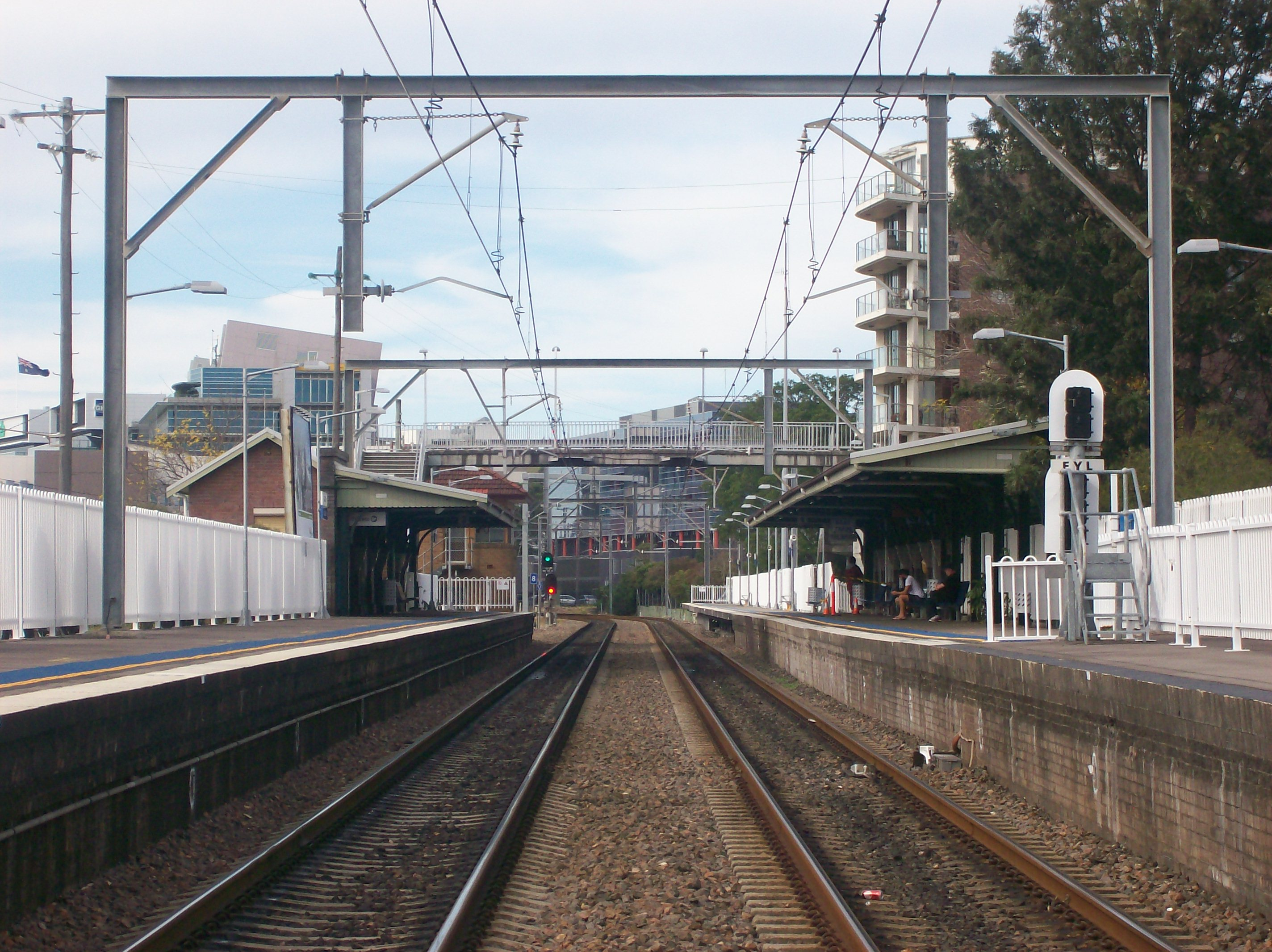 Wickham railway station footbridge